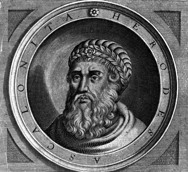 Herodes o Grande